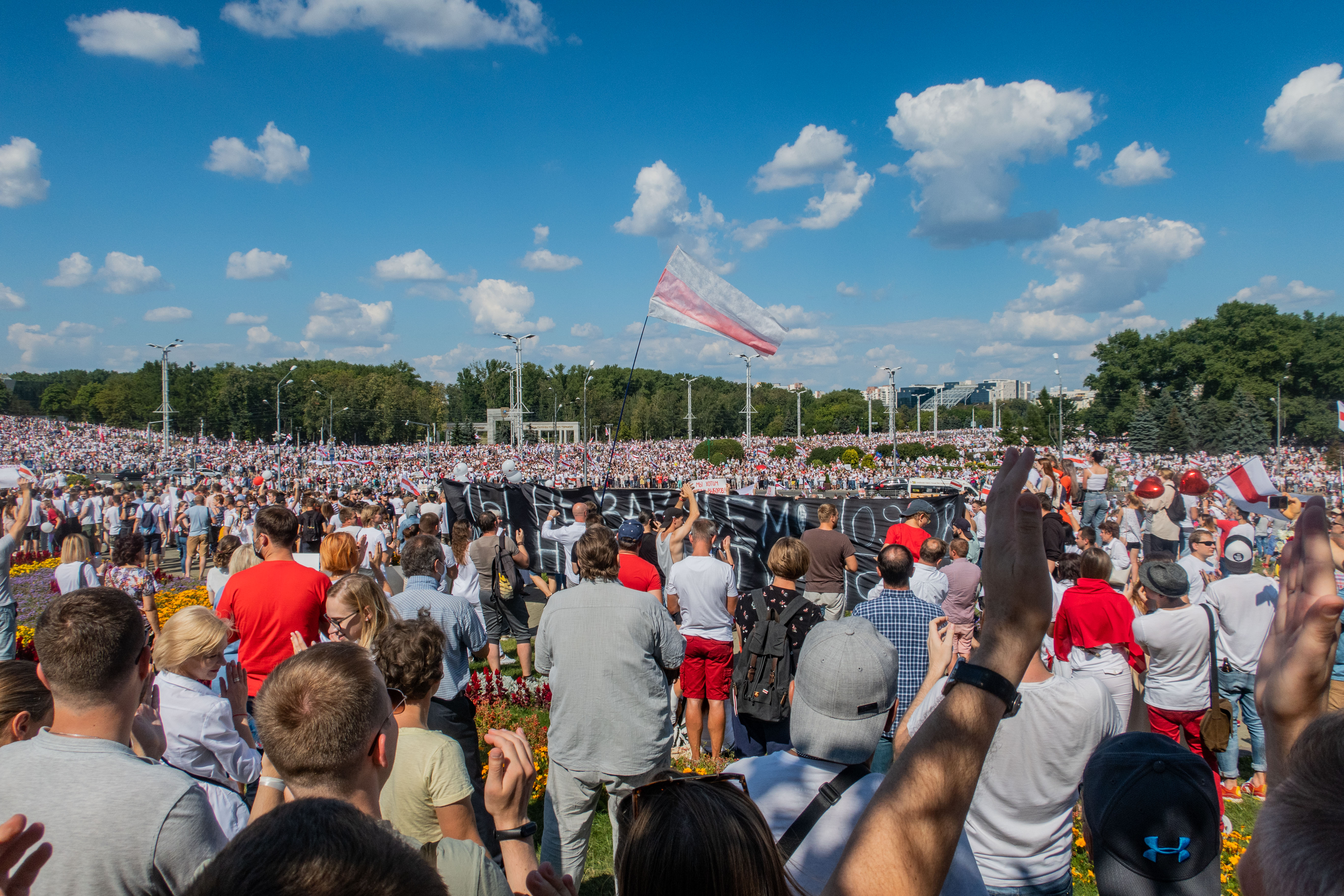 Protest rally against Lukashenko, 16 August. Minsk, Belarus